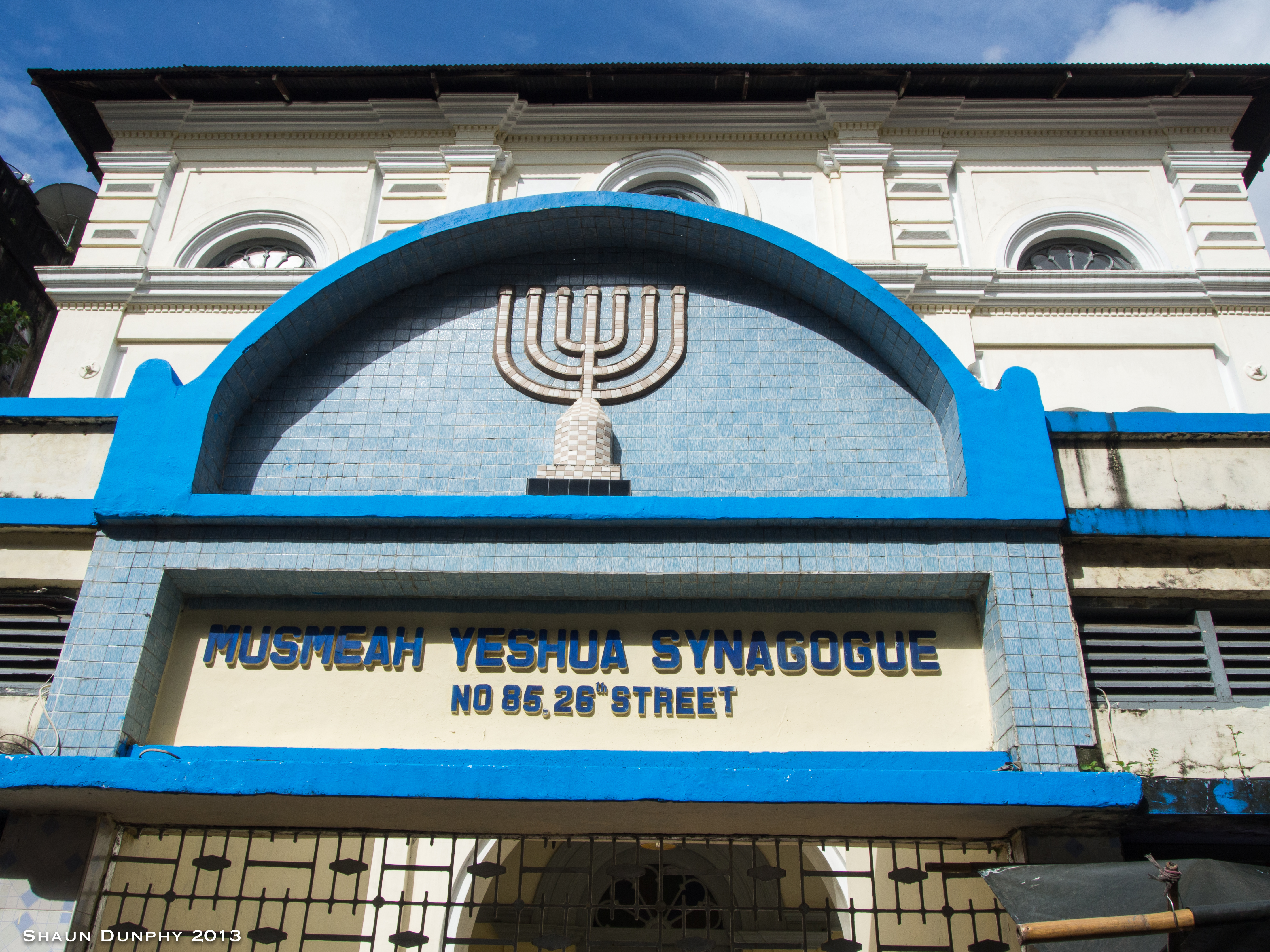 The facade of the only synagogue in Yangon: Musmeah Yeshua Synagogue